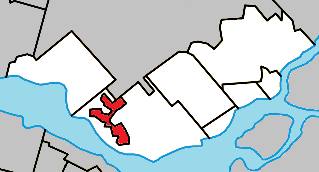 Location of Kanesatake, Quebec within Deux-Montagnes Regional County Municipality.